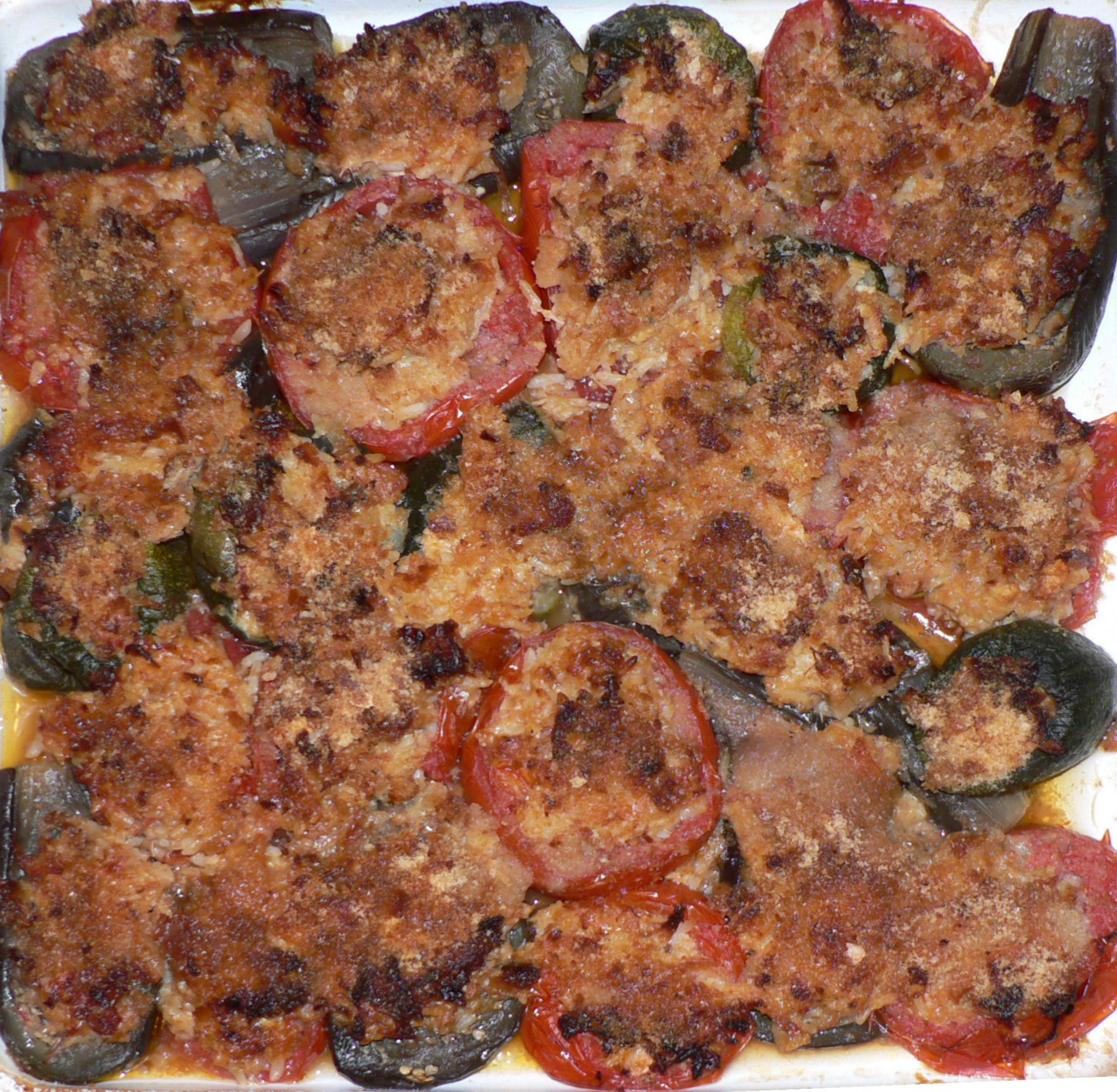 Stuffed vegetables, Provence-style